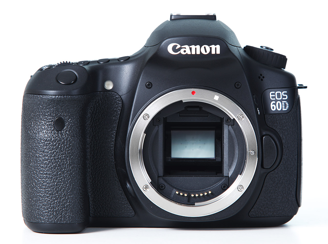 Canon EOS 60D body